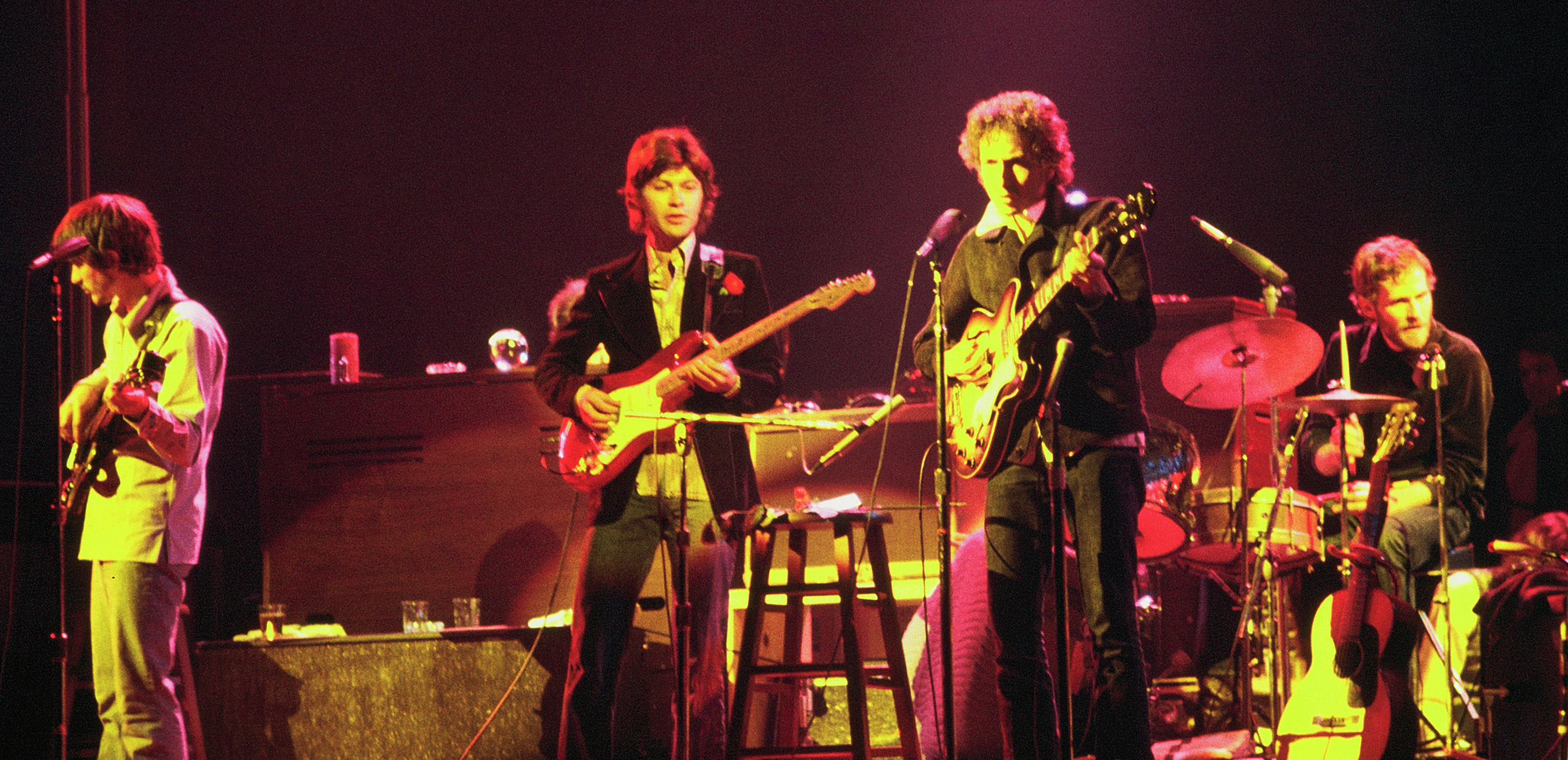 Bob Dylan and The Band touring in Chicago, 1974 (Left to right: Rick Danko (bass), Robbie Robertson (guitar), Bob Dylan (guitar), Levon Helm(drums))